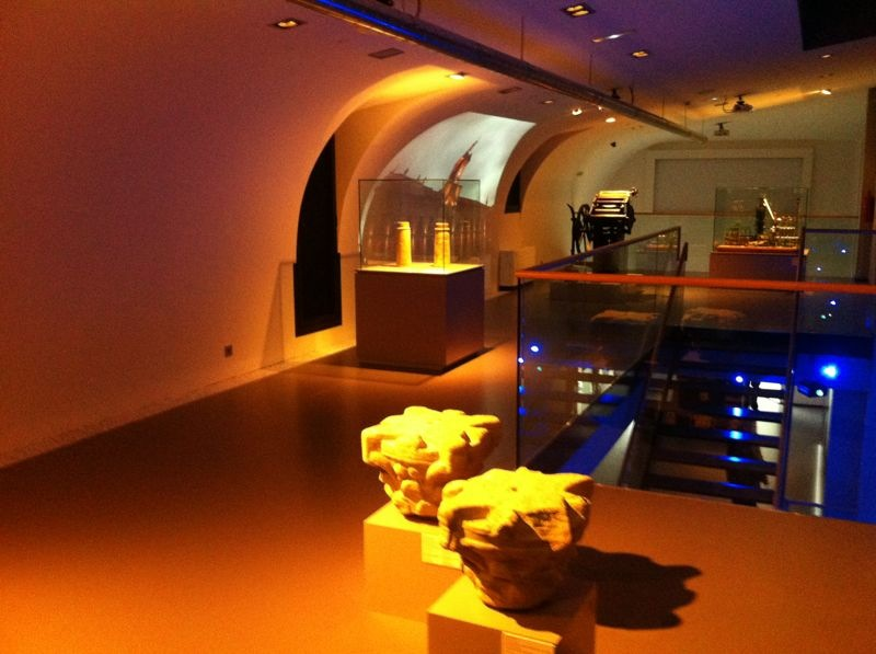 Last floor of the Aviles Museum